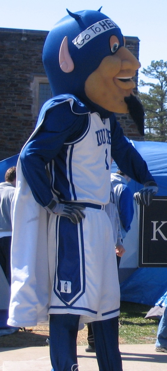 The Duke Blue Devils mascot This file has been extracted from another file: Mascot by K-ville sign.jpg